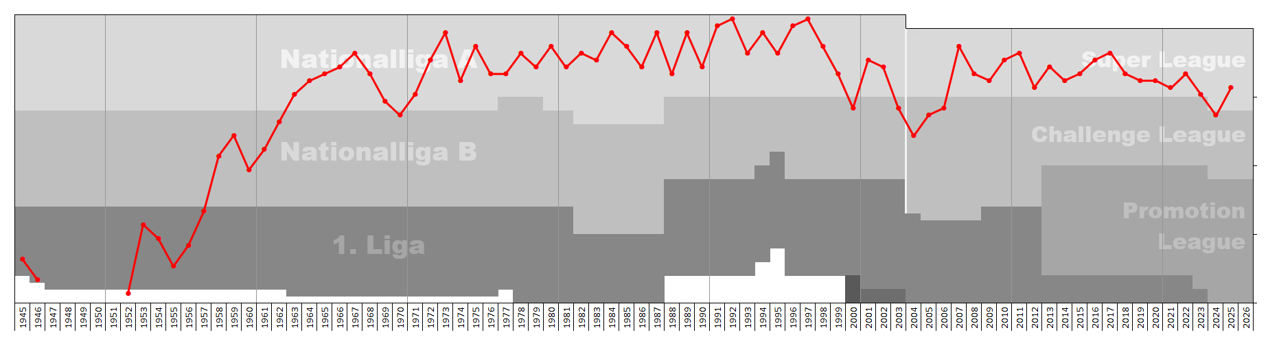 Chart of end-season table positions for FC Sion in the Swiss football league system. Data source: RSSSF